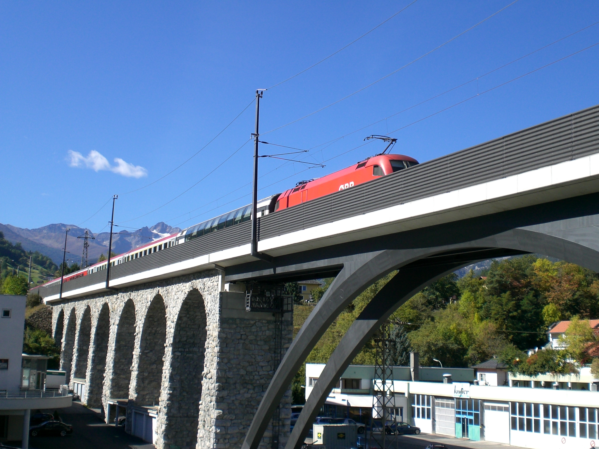 New Inn bridge in Landeck, Austria, with ÖBB EC 163 Transalpin to Wien Westbf This media shows the remarkable cultural object in the Austrian state of Tyrol listed by the Tyrolean Art Cadastre with the ID 24360. (on tirisMaps, on tirisdienste.at, pdf, more images on Commons)